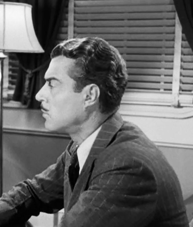 Low resolution cropped screenshot of Tristram Coffin aka Tris Coffin as Treasury agent Scott Pearson from the American film Dangerous Money (1946). The film is in the public domain due to the omission of a valid copyright notice on its original prints.